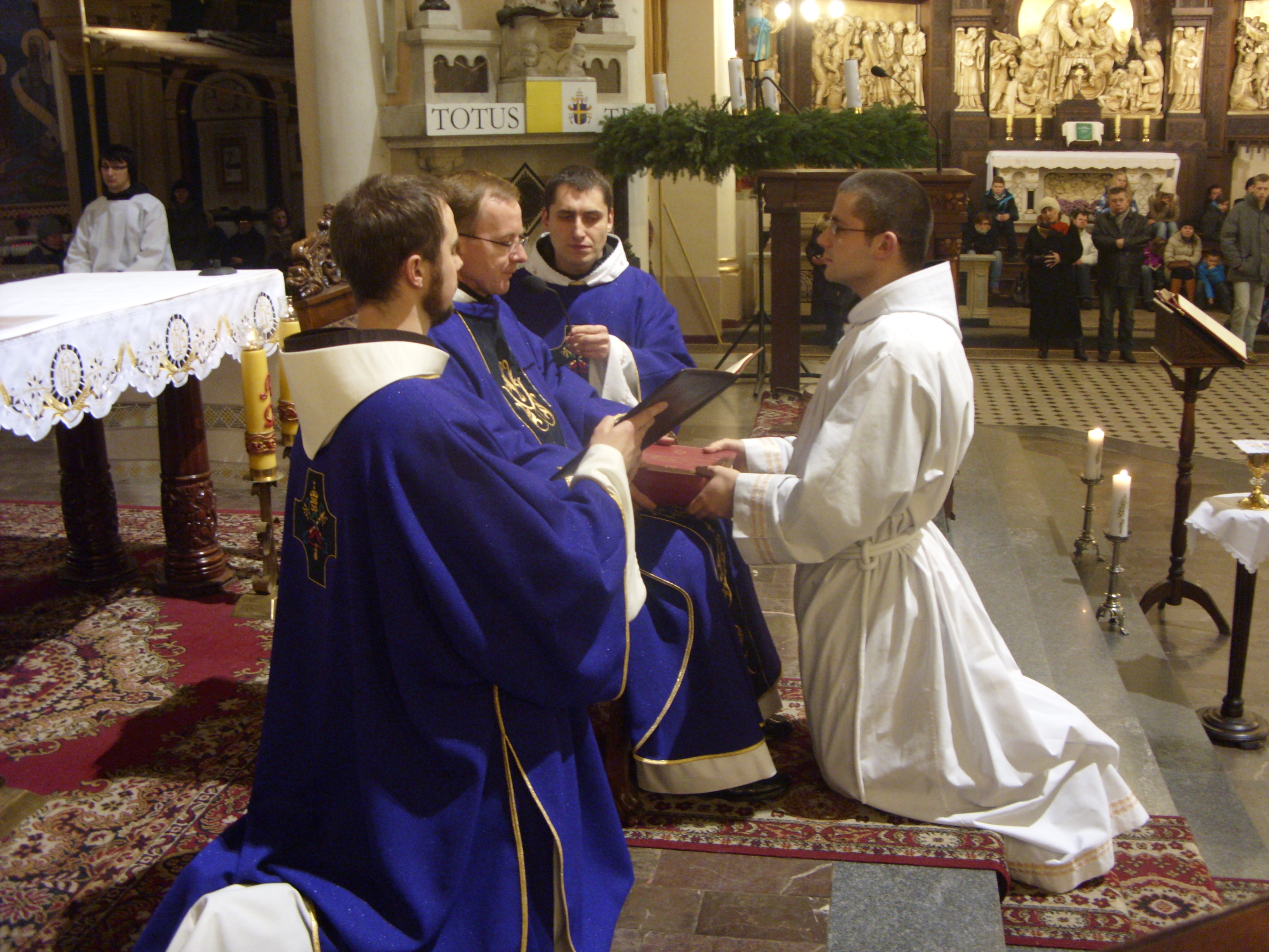 Assignation of new lector (ministries) in the basilica in Katowice Panewniki December 2, 2012.